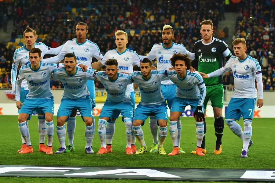 FC Schalke 04 2016